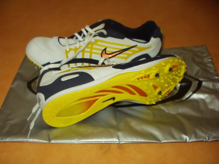 Nike Air Zoom track shoes, with carbon 6mm spikes attached. Photo taken by myself and released in the public domain.